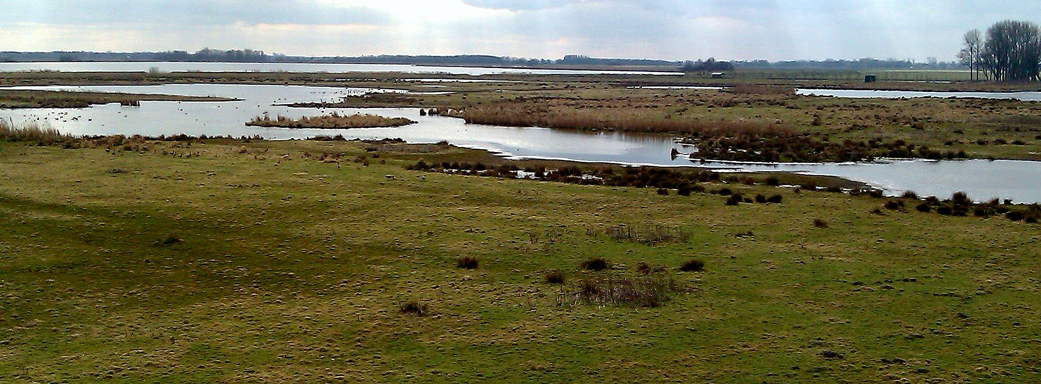 Panoramic view from the Belvedere over the Schildmeer and the meadows and smaller lakes along its banks